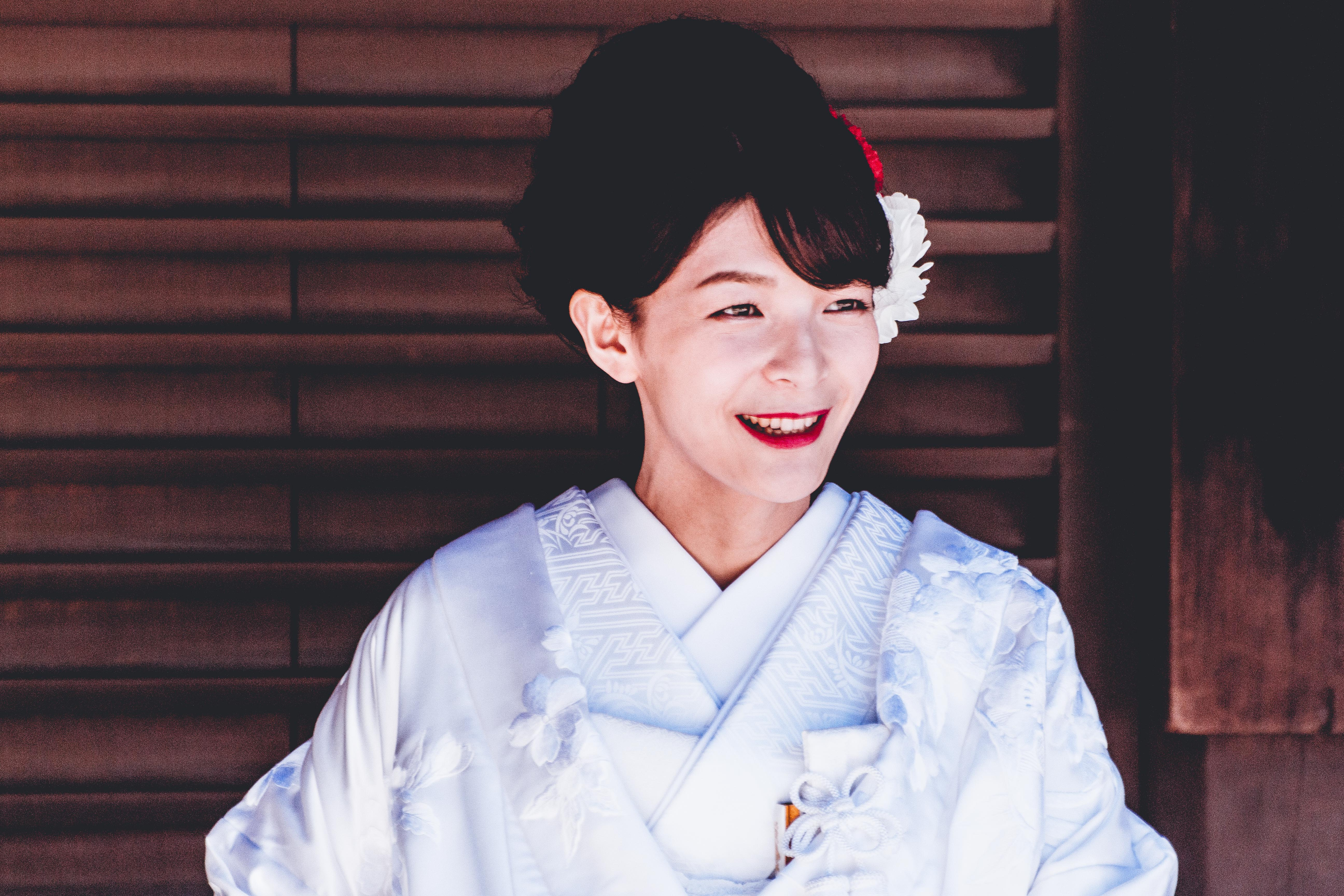 Meiji Jingu, Shibuya-ku, Japan